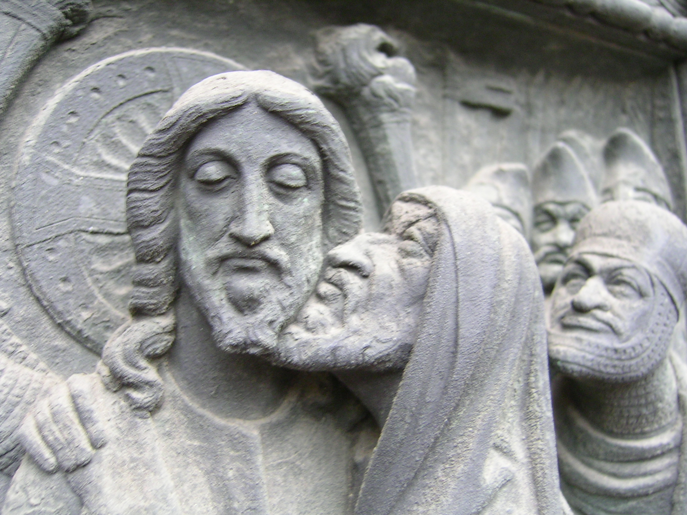 index of plates on the right door Plate Number 15 ( see index on the right ), on the right Door of ST Petri Dom in Bremen, Germany. User:Tarawneh/rami